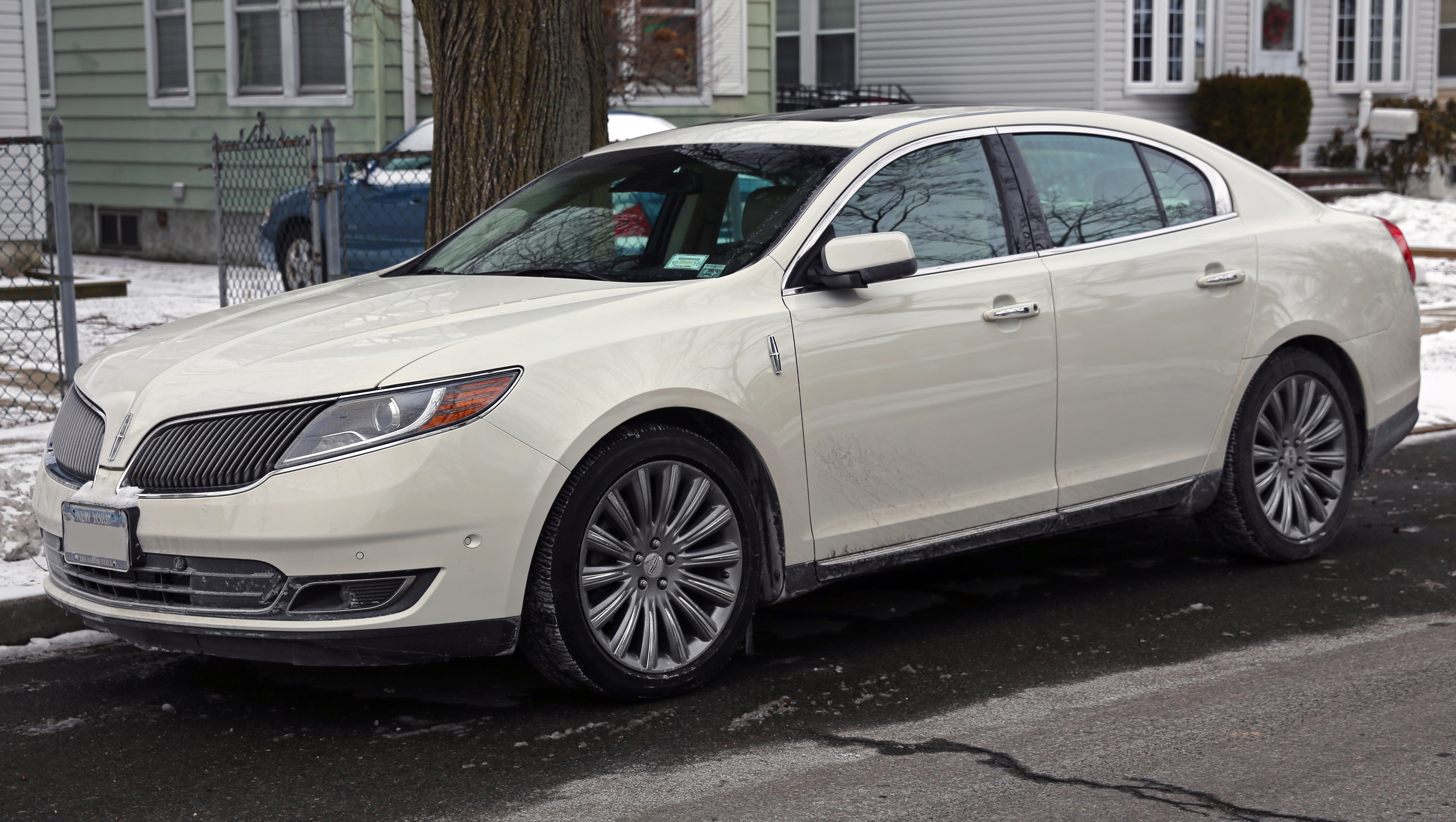 2013 Lincoln MKS AWD, facelift version. This one has the 305hp Ti-VCT 3.7 litre Duratec V6 engine.